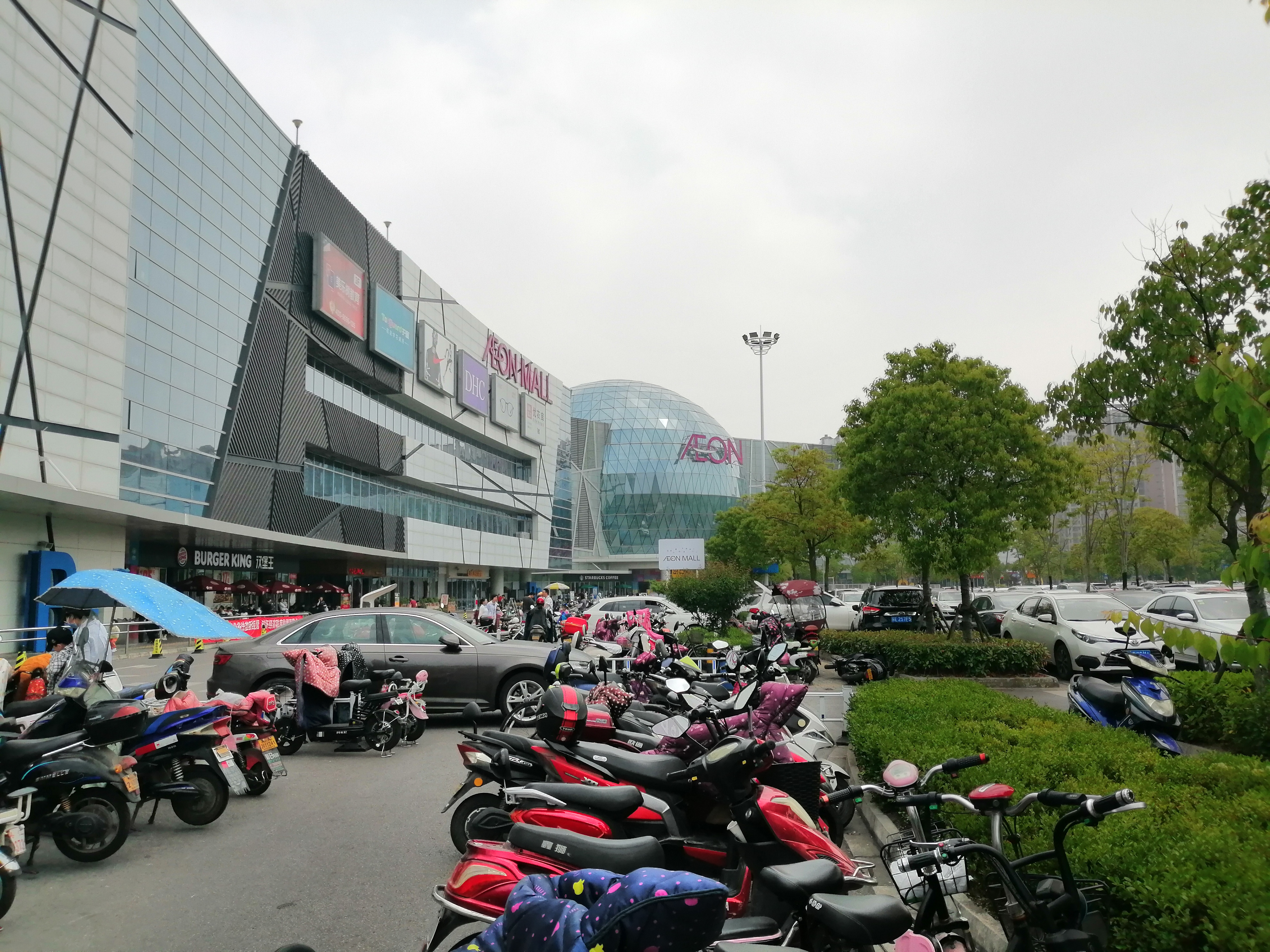 AEON MALL Suzhou Yuanqu Hudong, located on Zhongnan Street, Suzhou Industrial Park, Jiangsu, China. 中文（中国大陆）: 苏州园区湖东永旺梦乐城，位于苏州工业园区钟南街